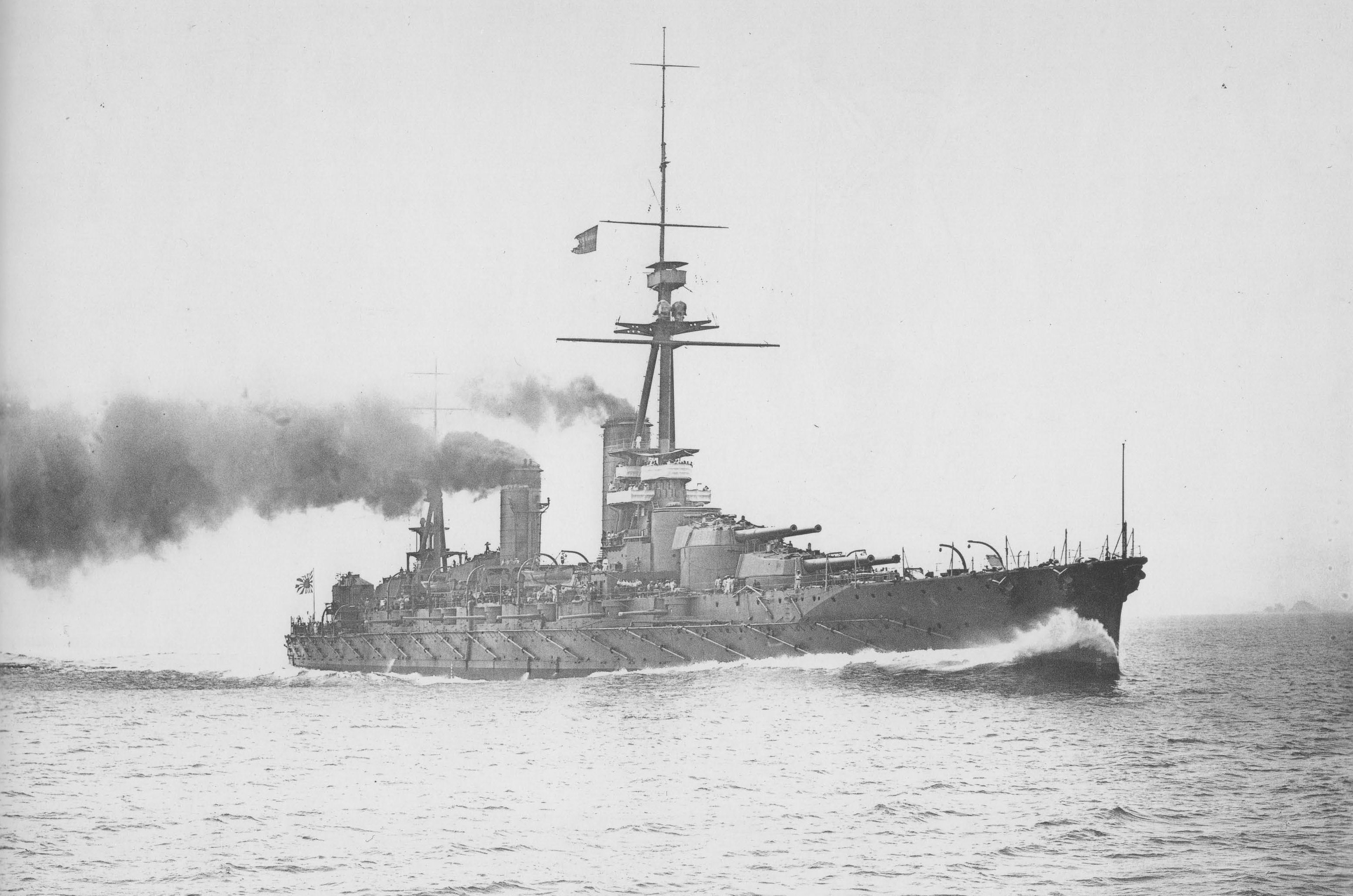 Imperial Japanese Navy battlecruiser Fusō undergoes trials.